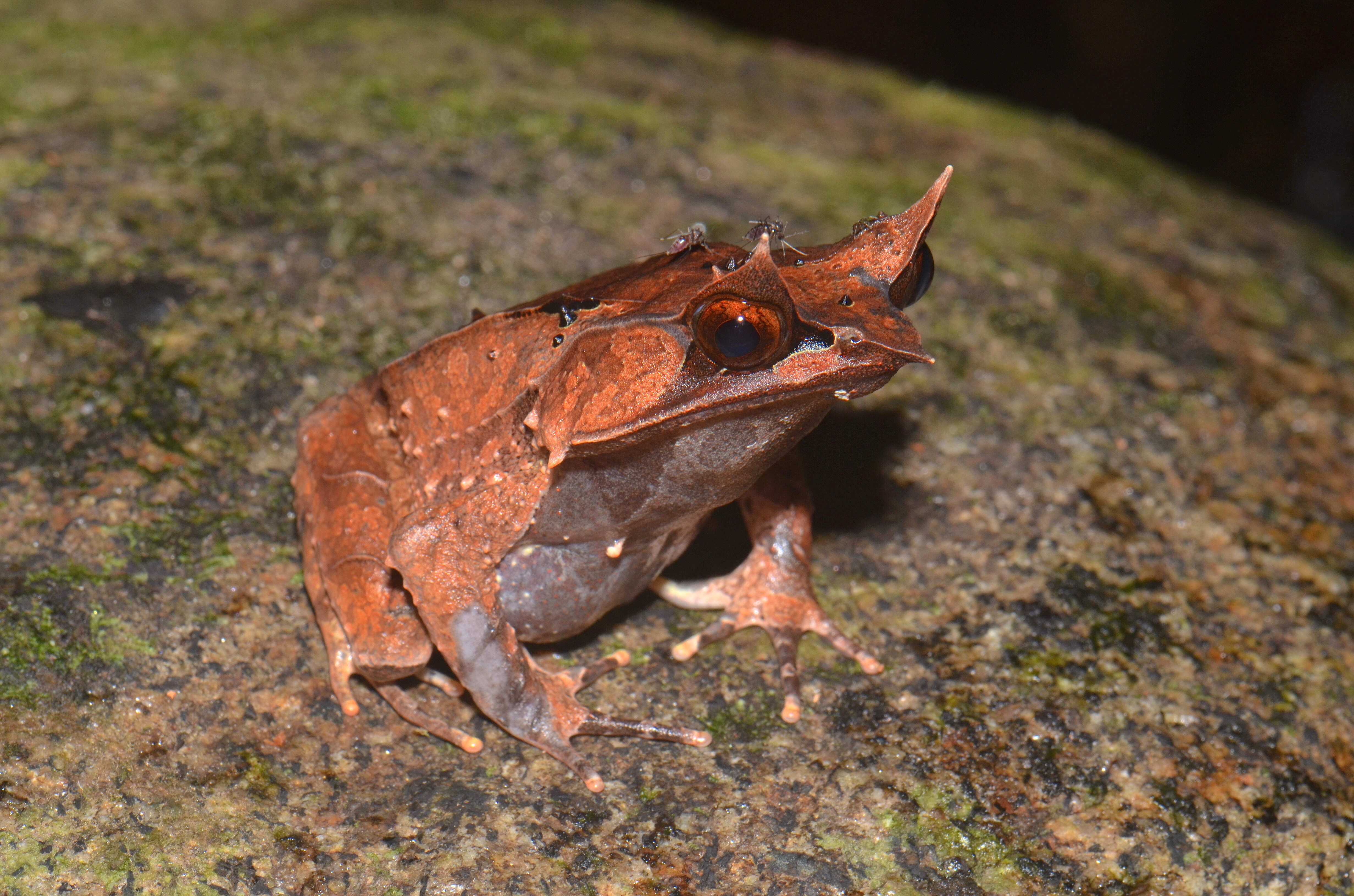 The long-nosed horned frog with three mosquitos